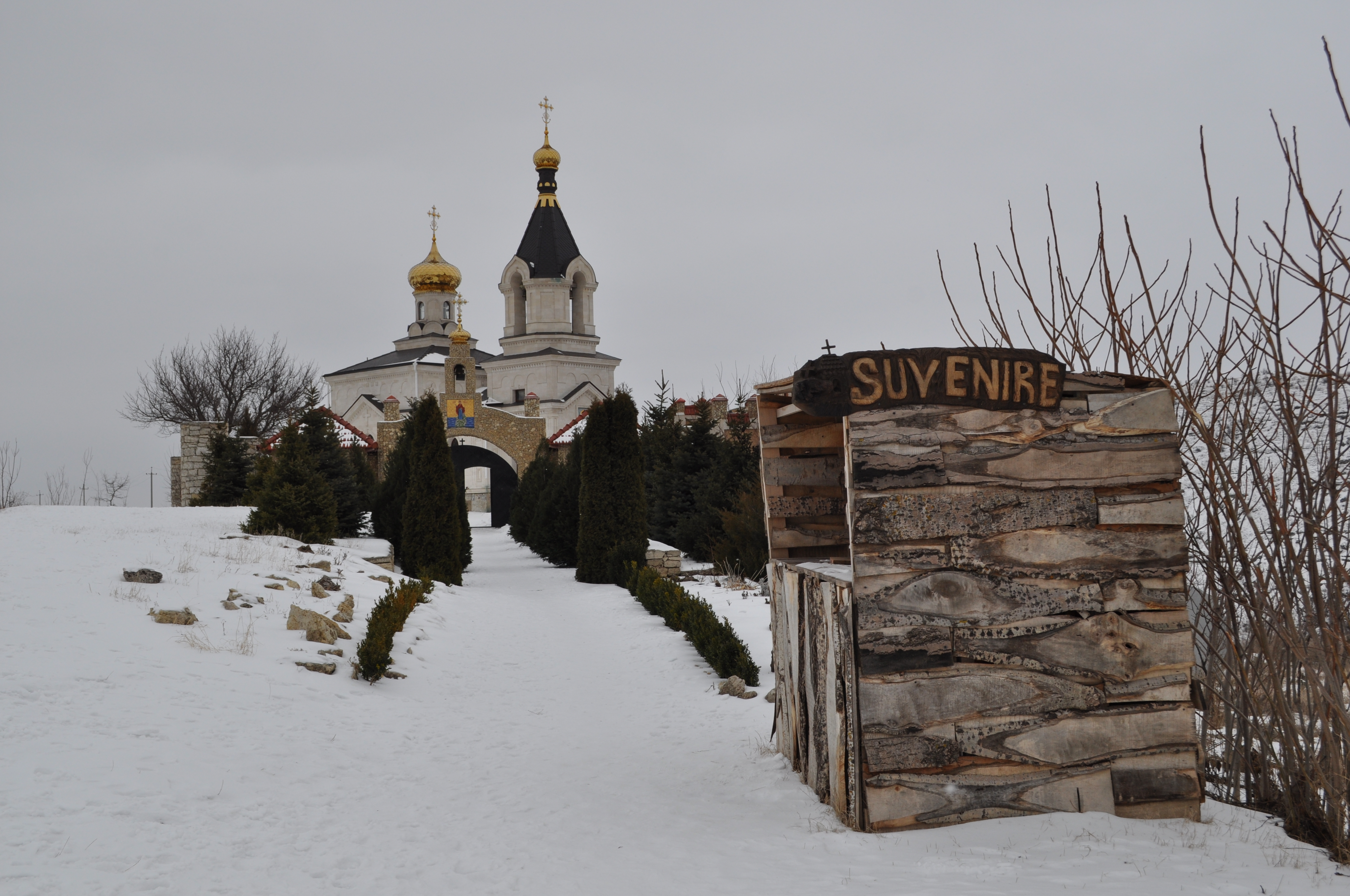 Saint Mary's Basilica in Orheiul Vechi